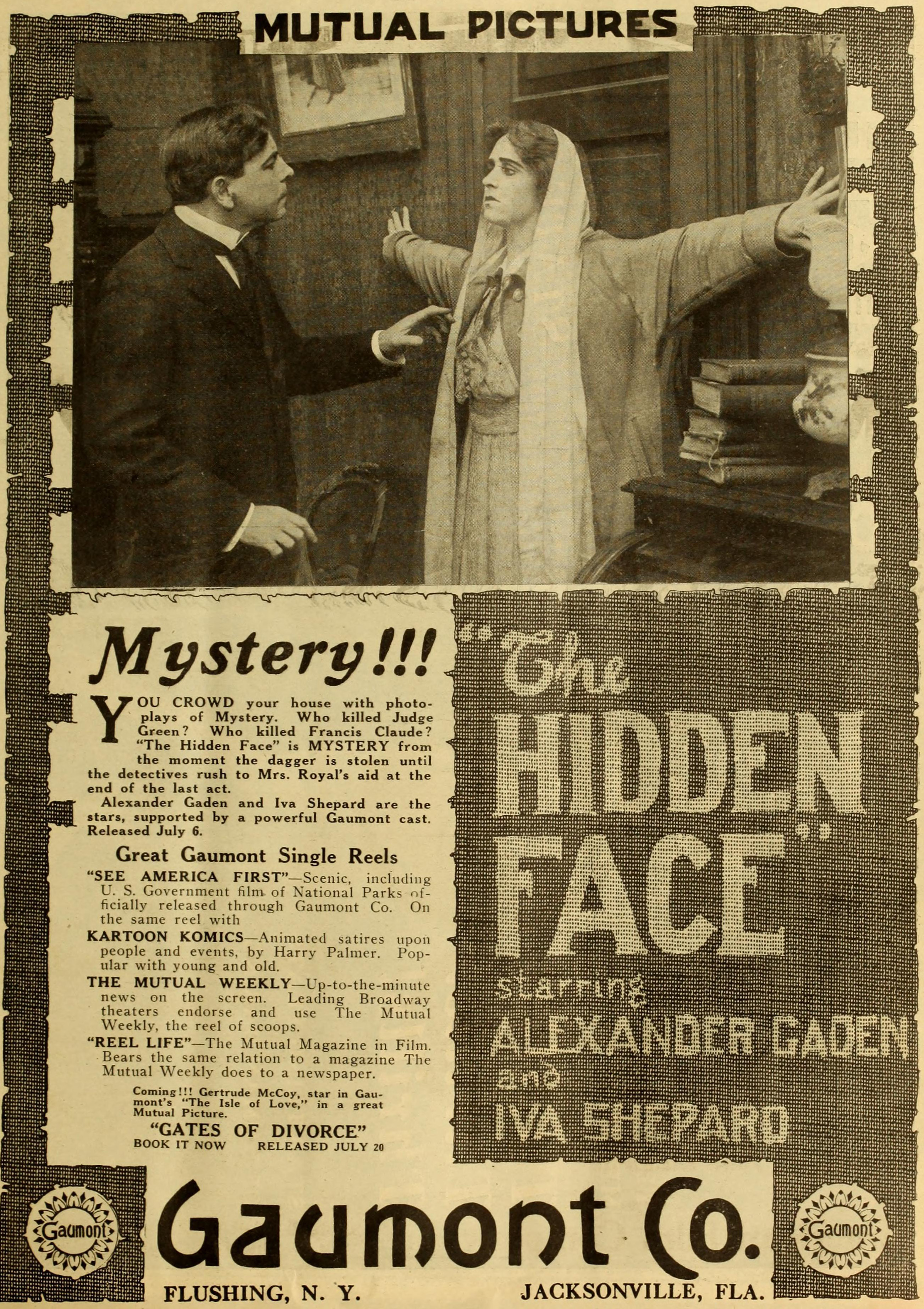 Advertisement in The Moving Picture World for the film The Hidden Face (1916).